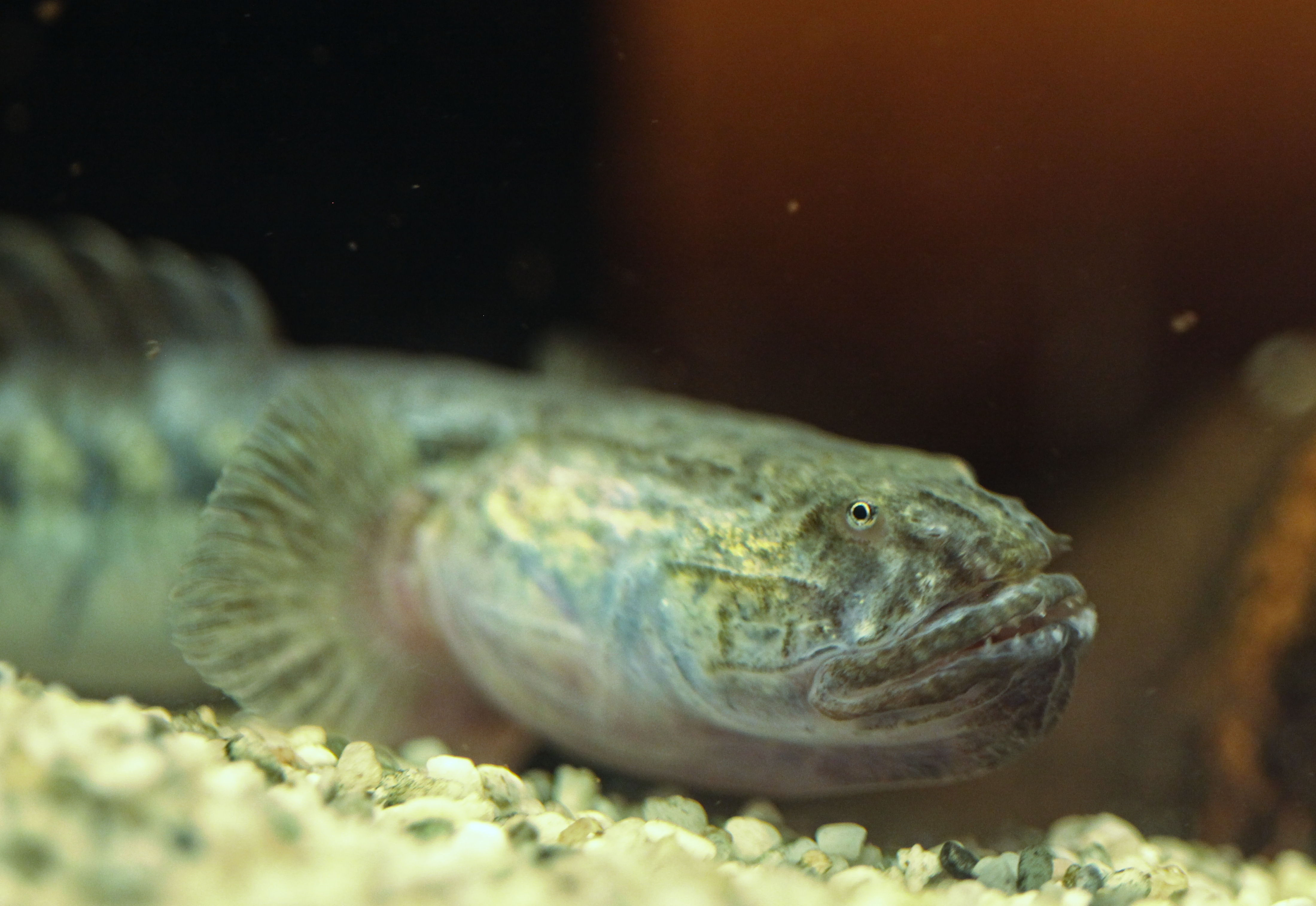 A portrait of Gobioides grahamae in the aquarium